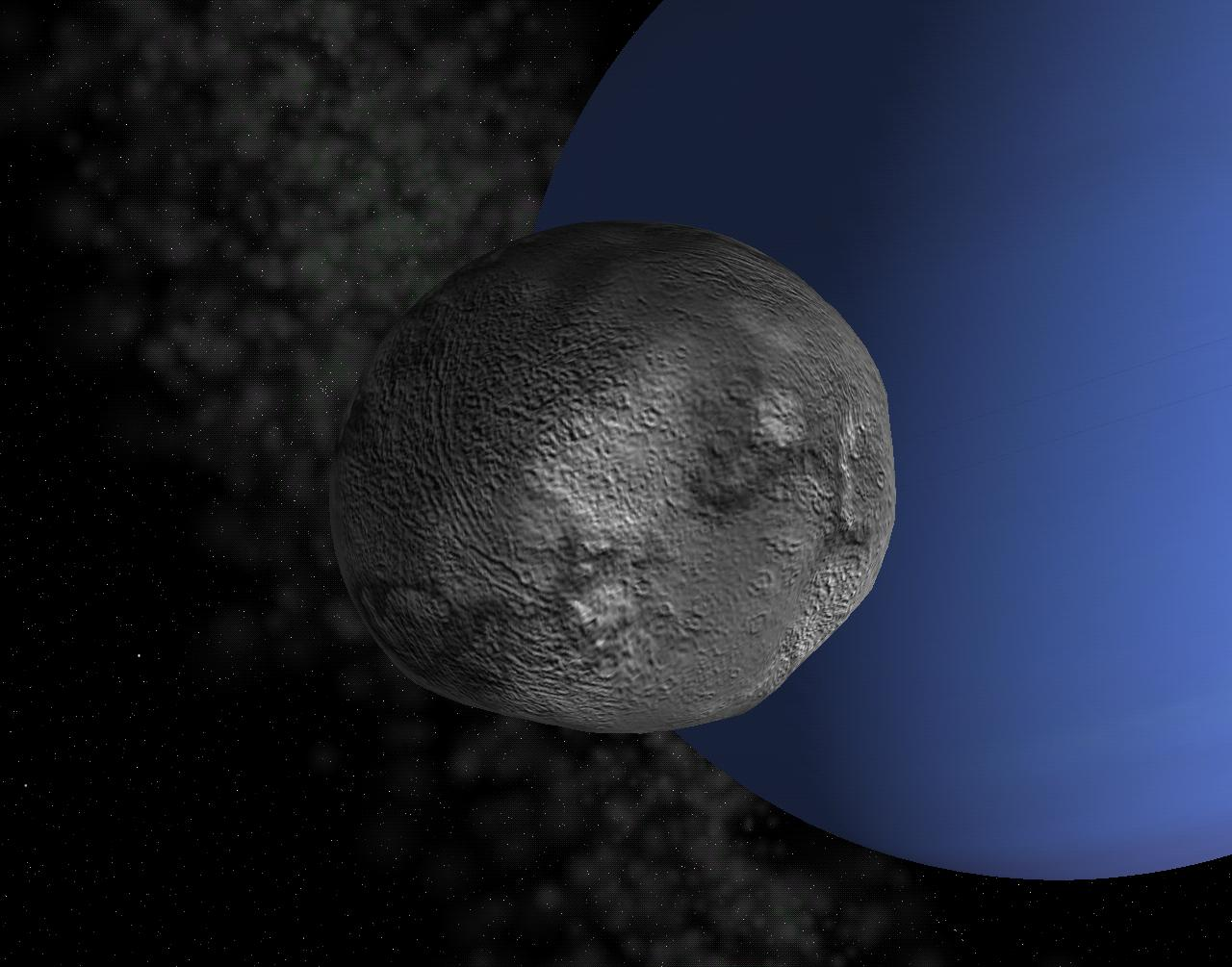 A simulated view of Larissa orbiting Neptune. The surface details are fictional. attribution: --JiFish(Talk/Contrib)